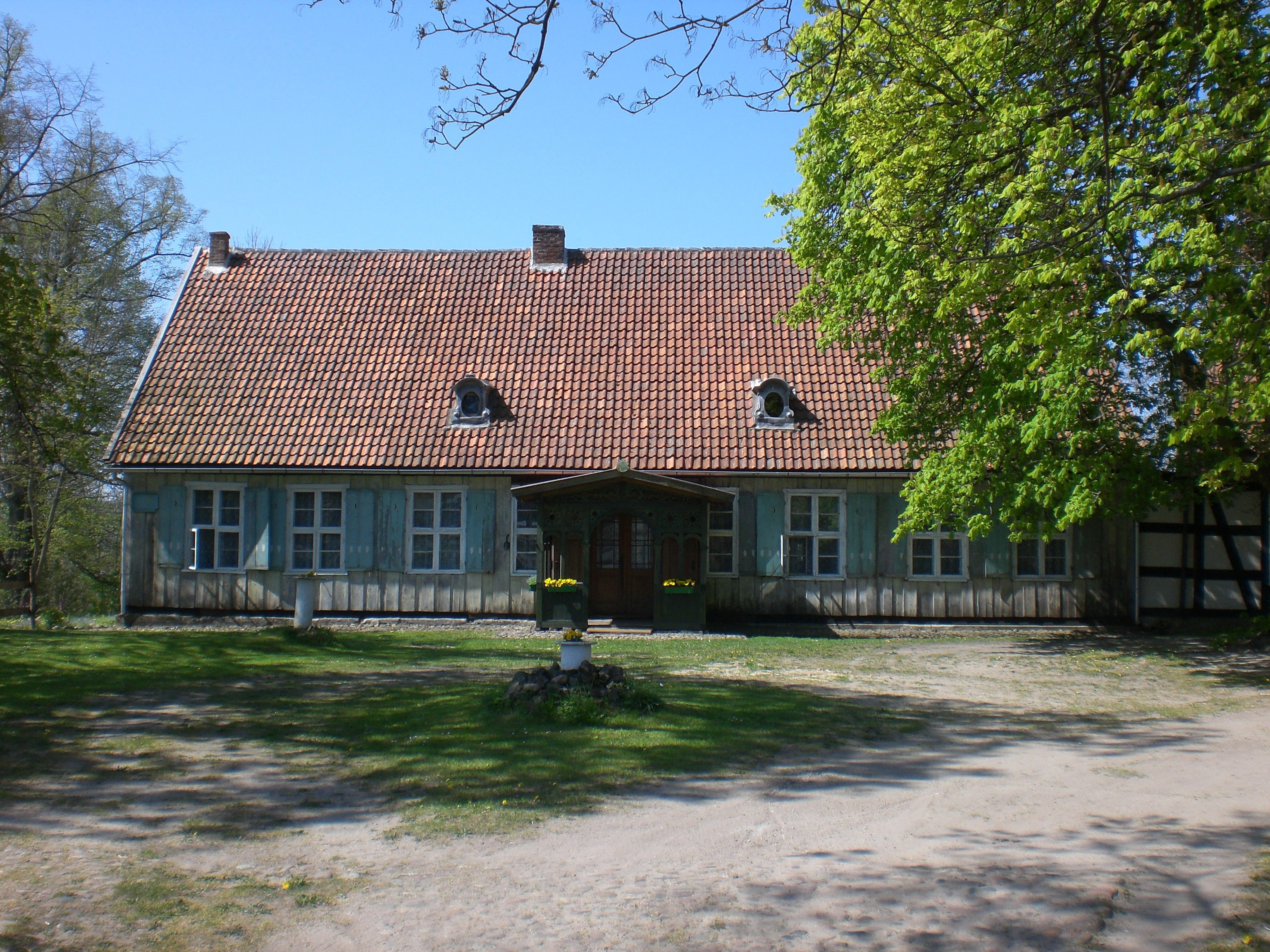 Manor in Mirachowo, Poland